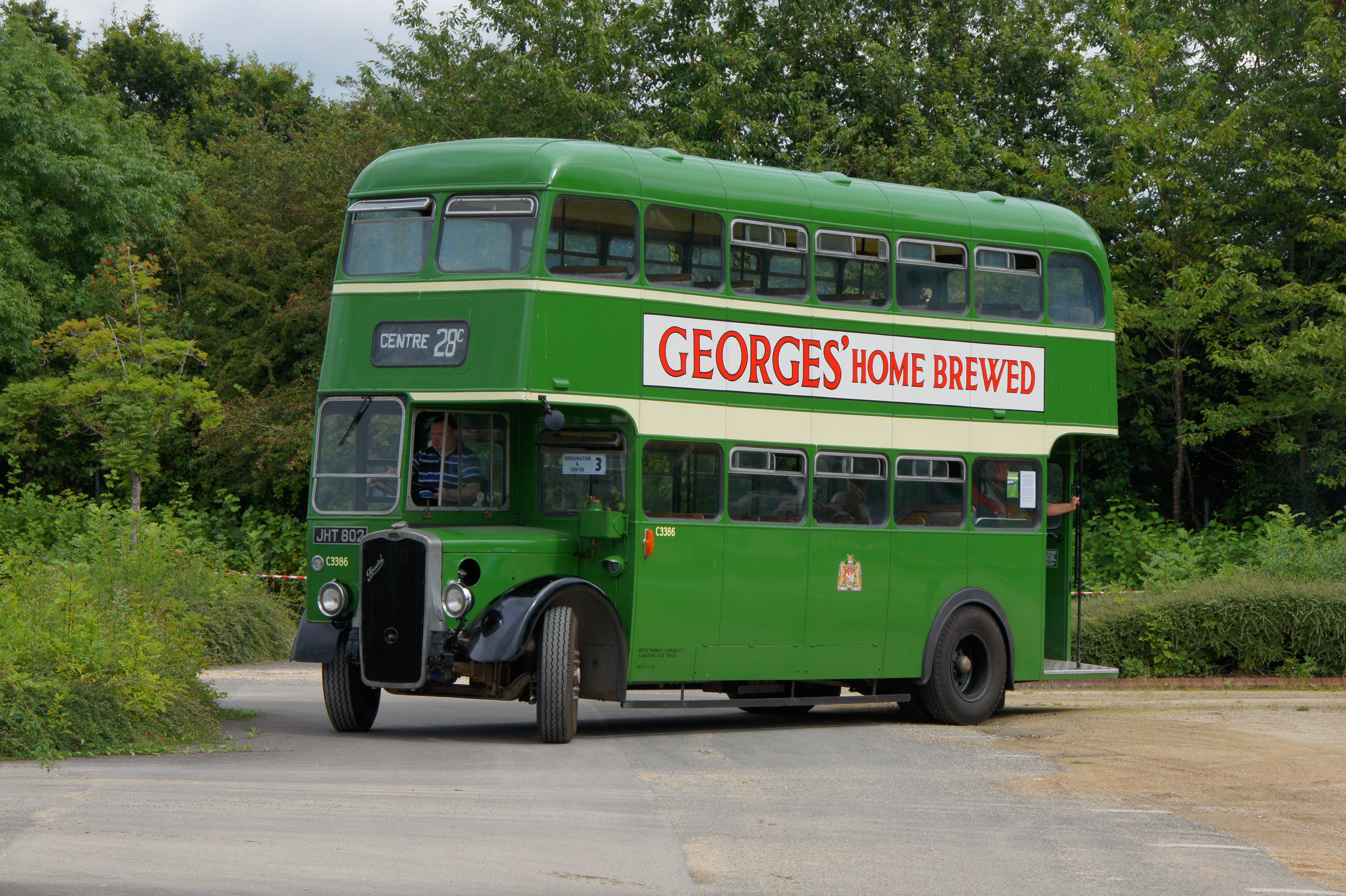 JHT802-1 120812 CPS